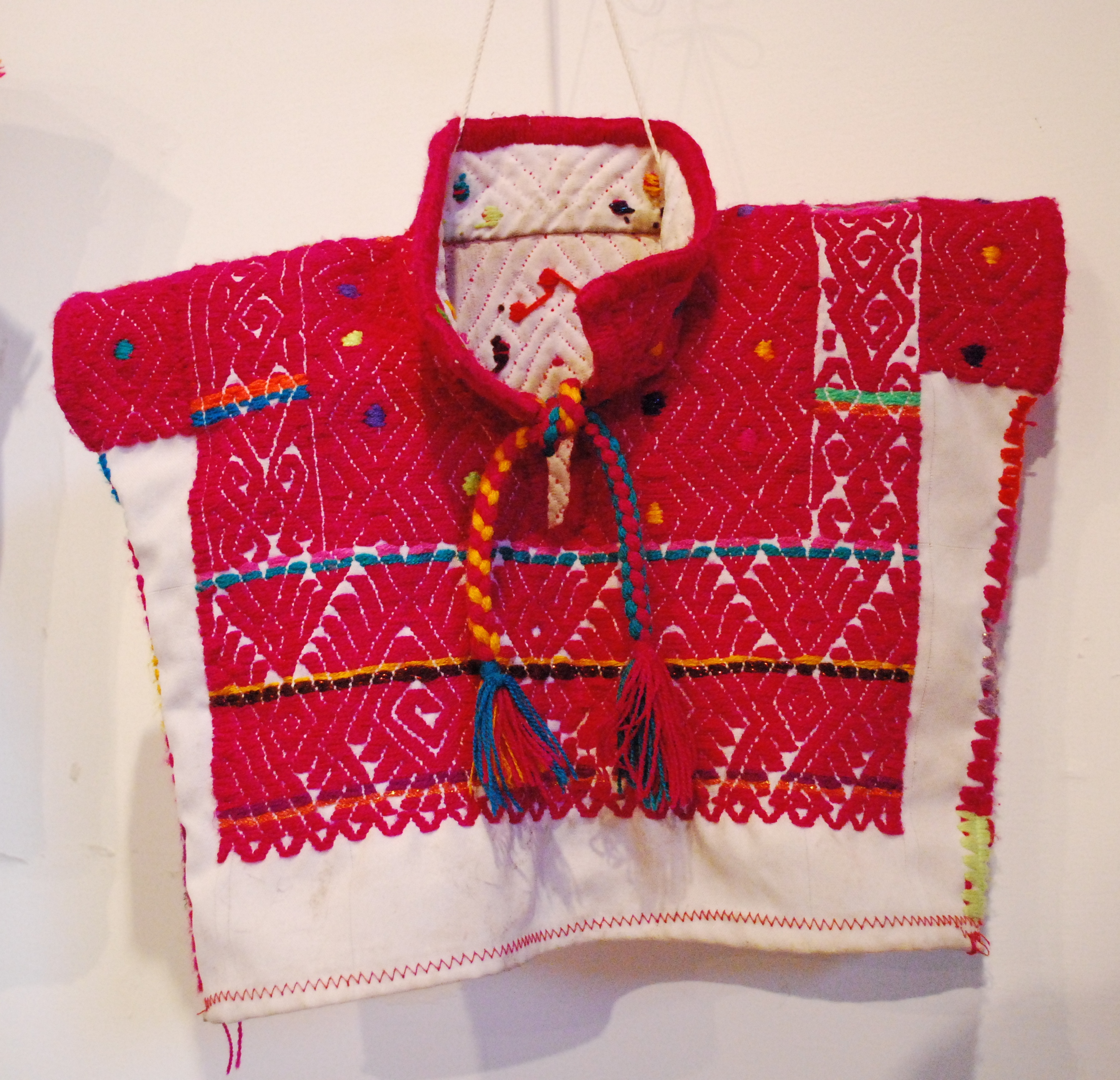 Huipil from San Andres Duraznal, Chiapas on display at Casa Na Bolom in San Cristobal de las Casas, Chiapas, Mexico